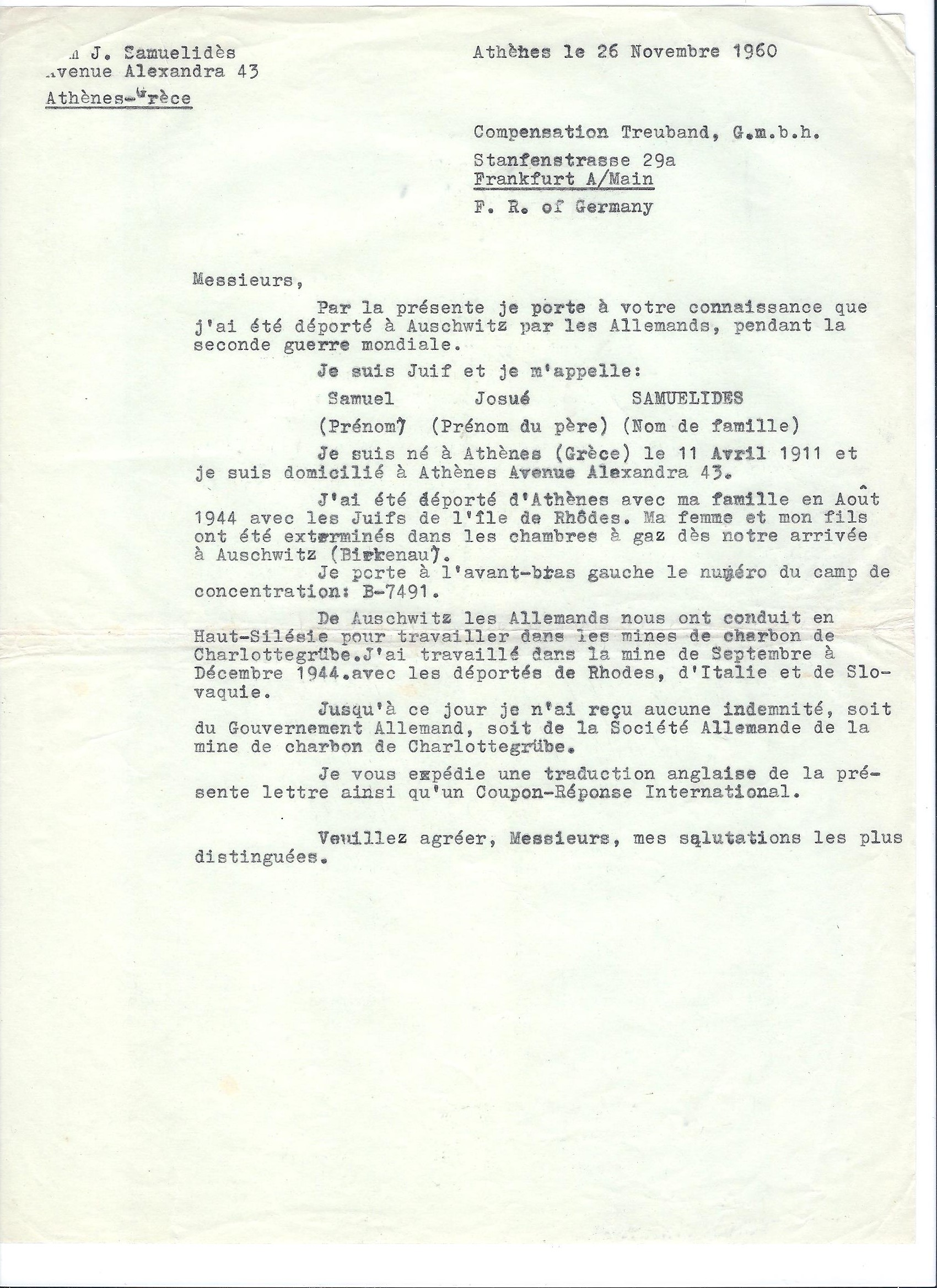 Compensation Letter auschwitz prisoner B-7491